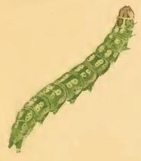 Stainton’s Natural History of the Tineina (1855–1873): Swammerdamia caesiella